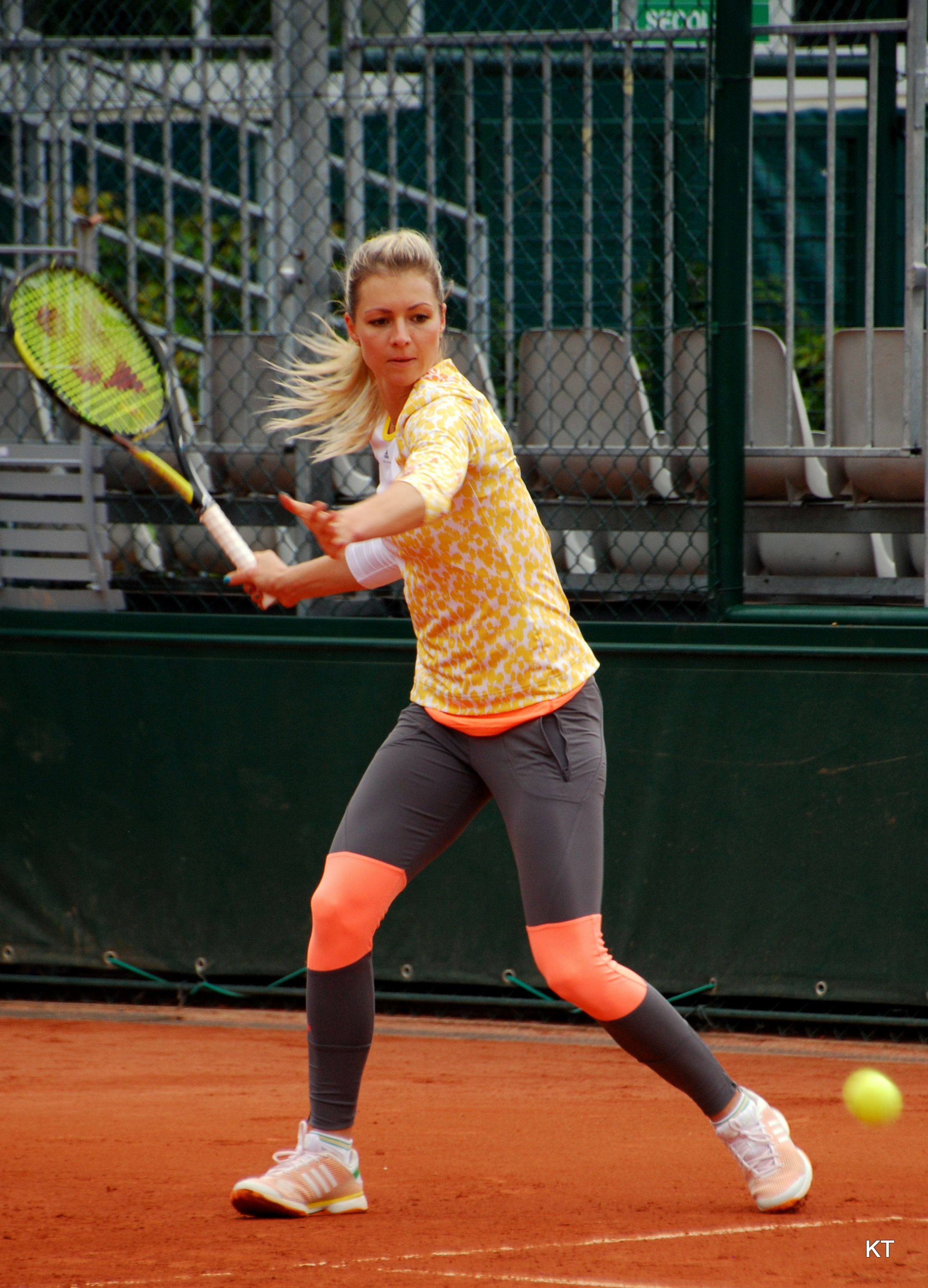 On the practice court. Day 4 of Roland Garros 2014.